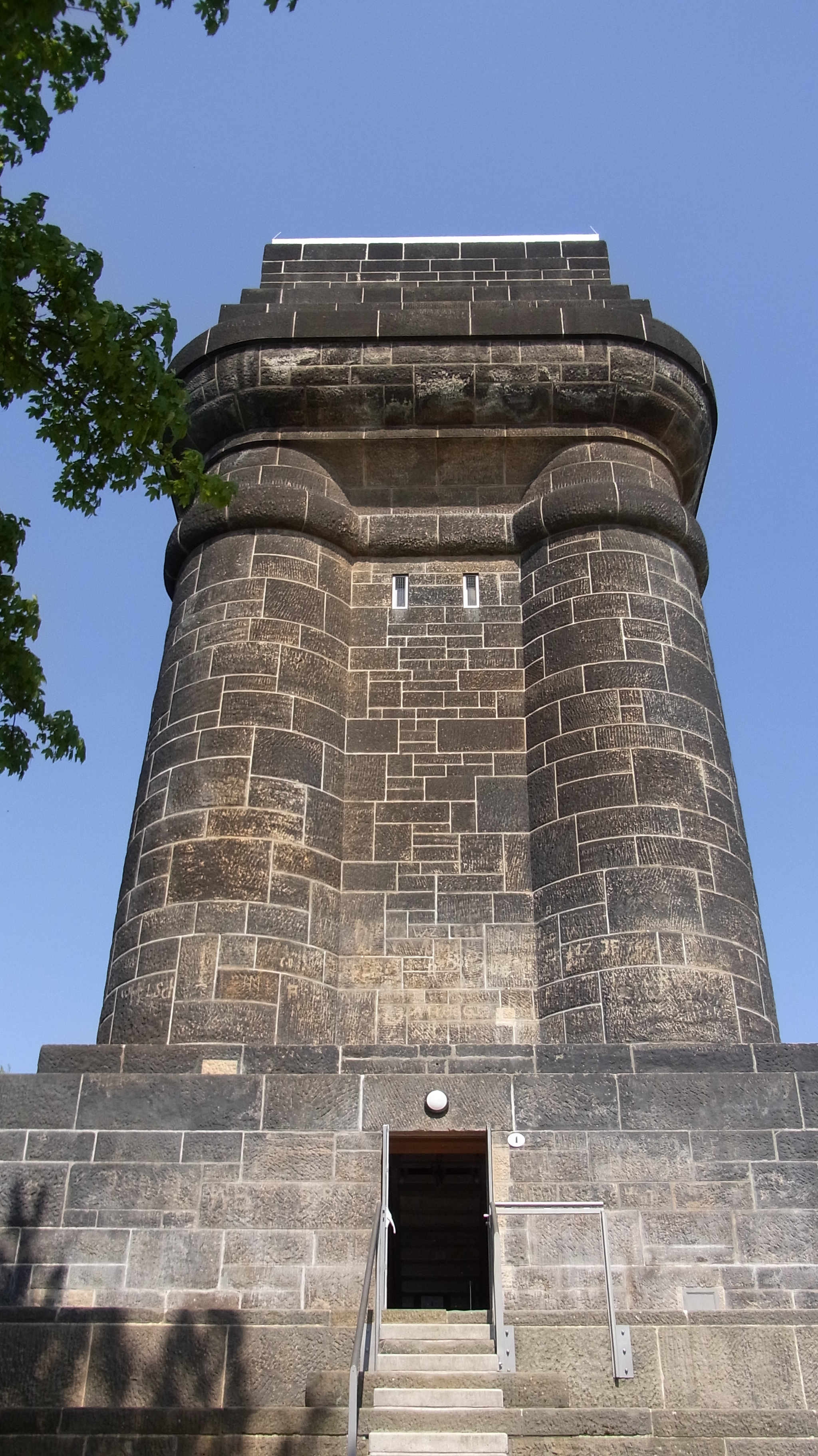 entrance portal of the Bismarck tower in Dresden-Räcknitz 2011